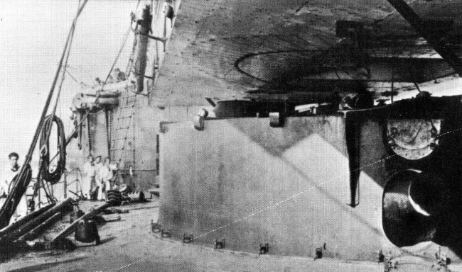 HMS Captain, launched 1869 and sank 1870